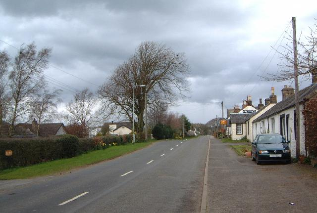 Clarencefield Small Annandale village.